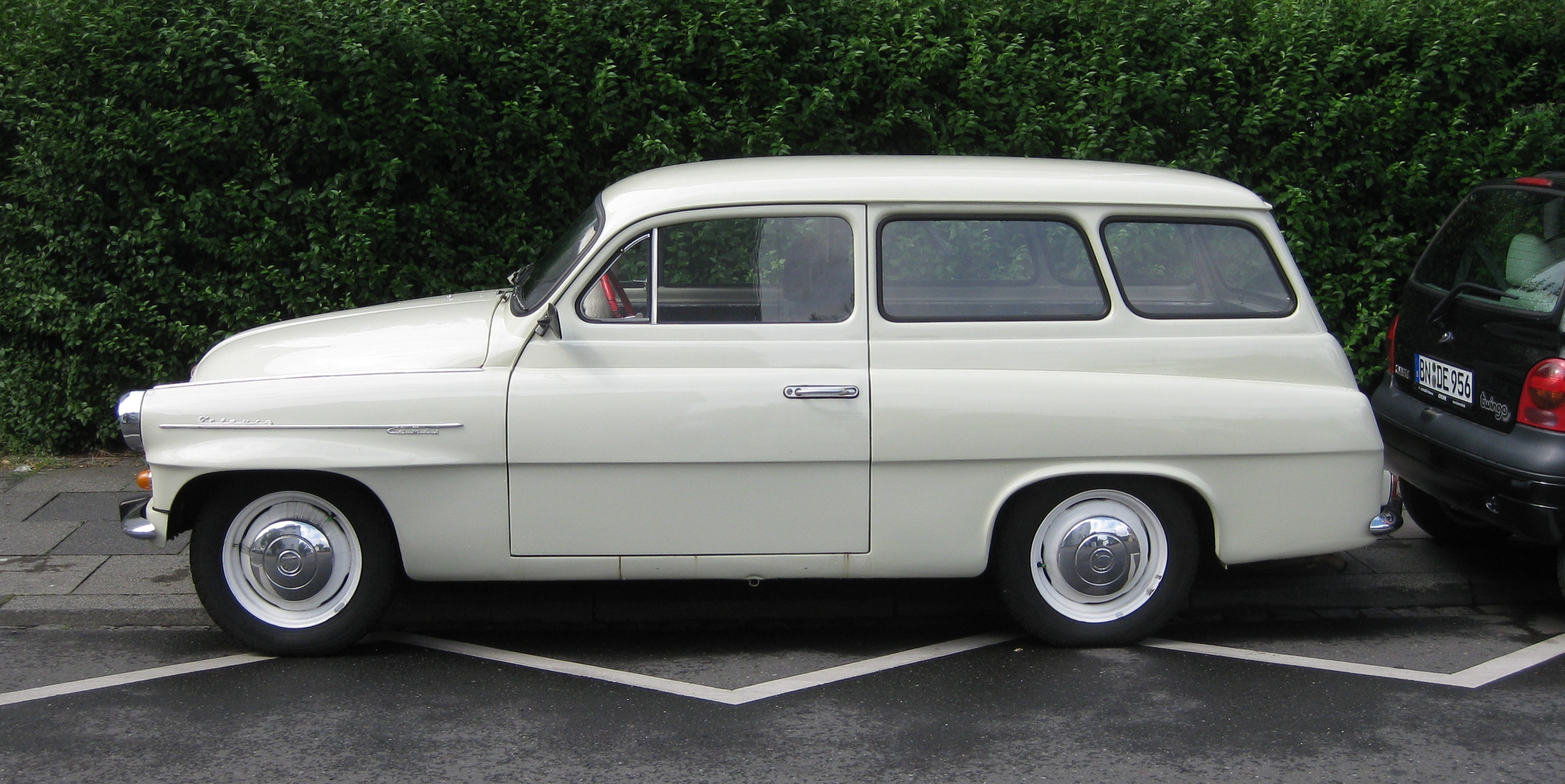 Škoda Octavia Combi (1959 - 1971), model year 1970, in Bonn/Germany